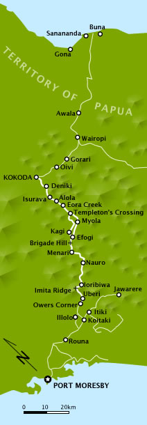 A map of the Kokoda Trail/Track as it was in 1942. It has been rotated so the trail which runs roughly NE from Port Moresby runs up and down the page.